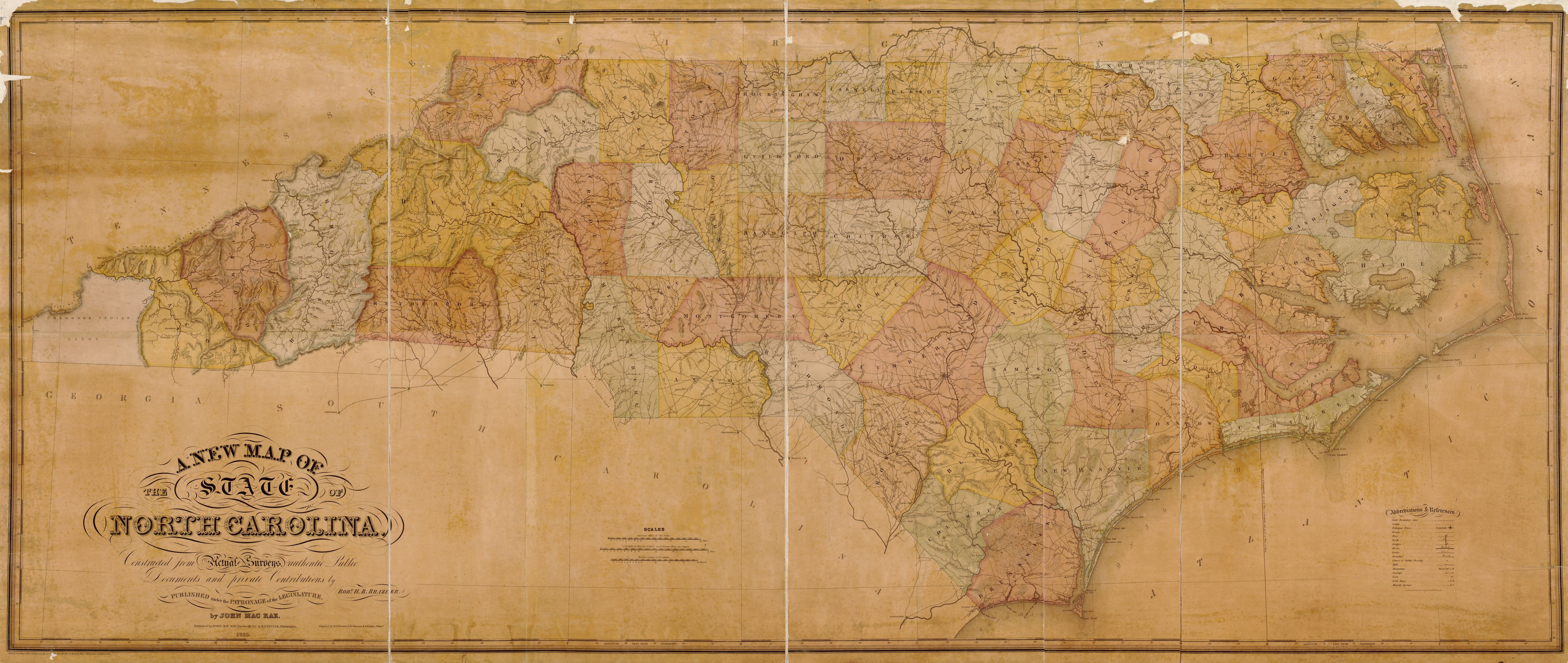 Published under the patronage of the legislature by John Mac Rae ; Philadelphia : H.S. Tanner, 1833.